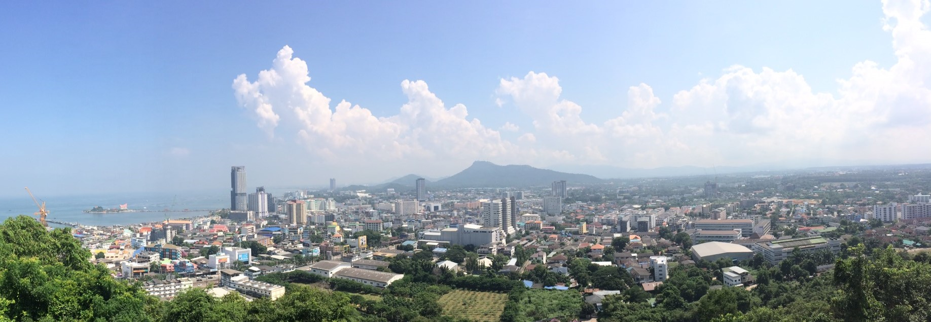 Sriracha city and Chaopraya Surasak sub-district area.